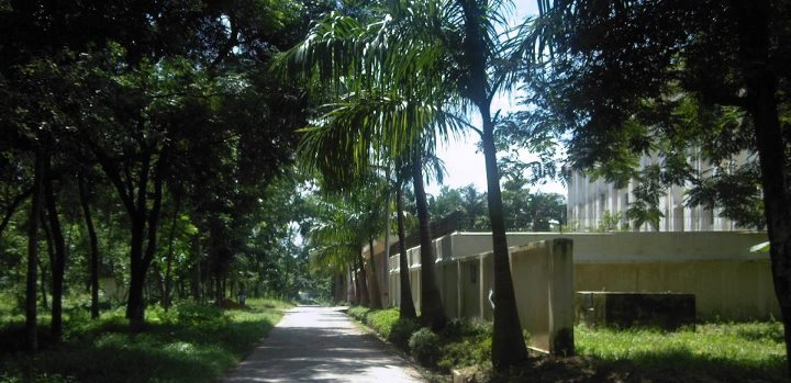 This hall has no special name and it is called Ladies hall.